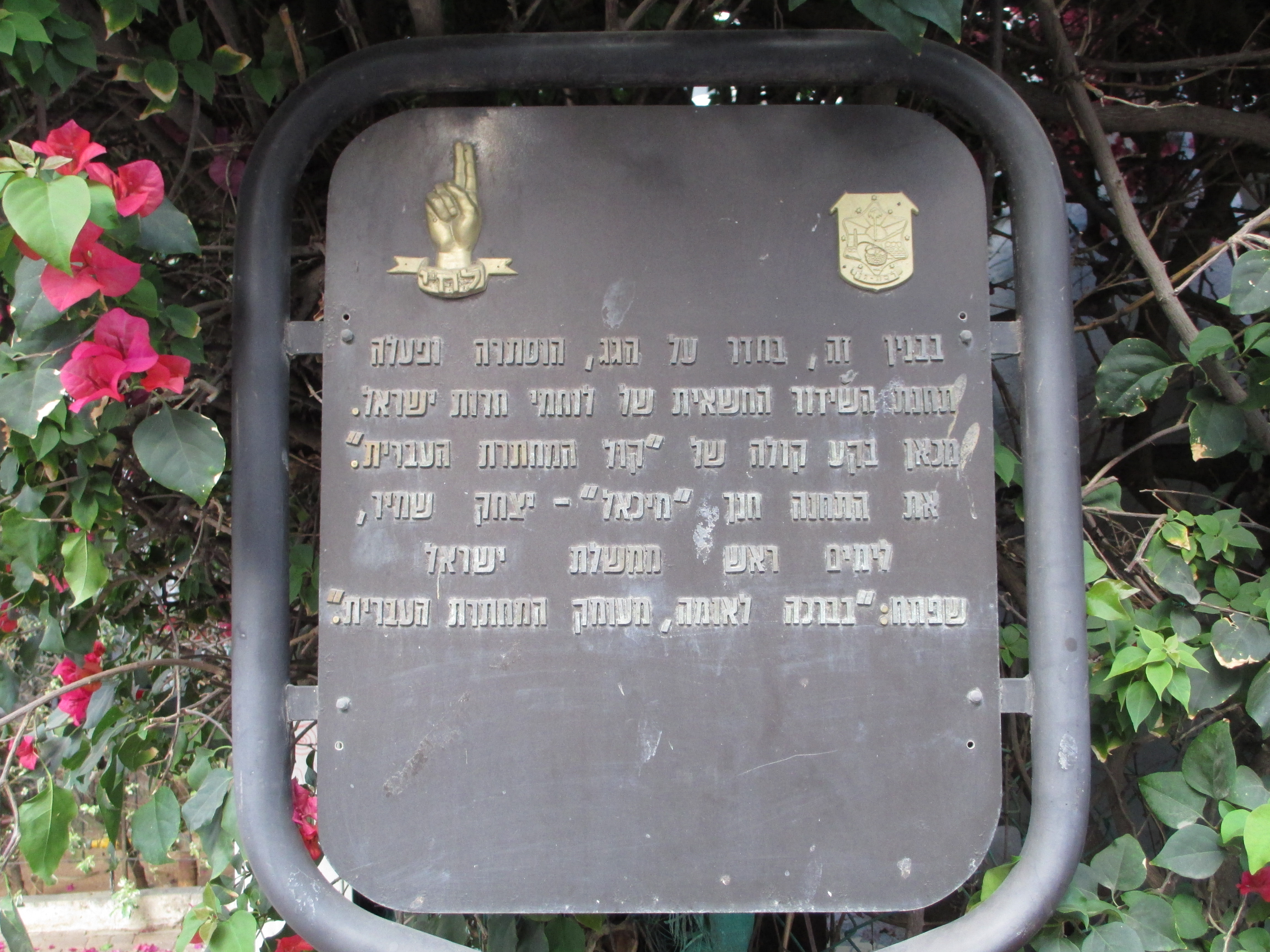 lehi (israel freedon fighters) commemorating plaque in ramat gan שלט זיכרון לתחנת השידור של לח"י ברח' רוקח 17 ברמת גן